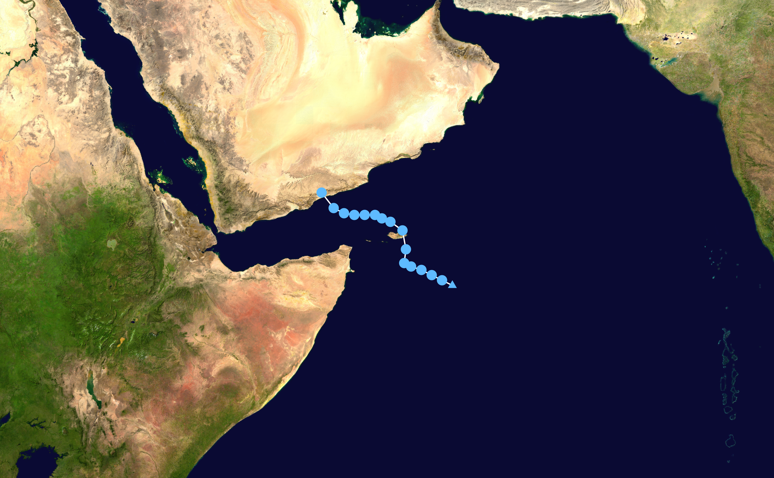 Track map of Deep Depression ARB 02 of the 2008 North Indian Ocean cyclone season. The points show the location of the storm at 6-hour intervals. The colour represents the storm's maximum sustained wind speeds as classified in the Saffir–Simpson scale (see below), and the shape of the data points represent the nature of the storm, according to the legend below. Saffir–Simpson scale Tropical depression≤38 mph≤62 km/h Category 3111–129 mph178–208 km/h Tropical storm39–73 mph63–118 km/h Category 4130–156 mph209–251 km/h Category 174–95 mph119–153 km/h Category 5≥157 mph≥252 km/h Category 296–110 mph154–177 km/h Unknown Storm type Tropical cyclone Subtropical cyclone Extratropical cyclone / Remnant low / Tropical disturbance / Monsoon depression